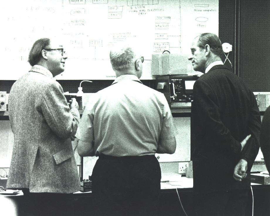 Roger Needham and David Wheeler explaining the Cambridge Ring to the Chancellor of University of Cambridge